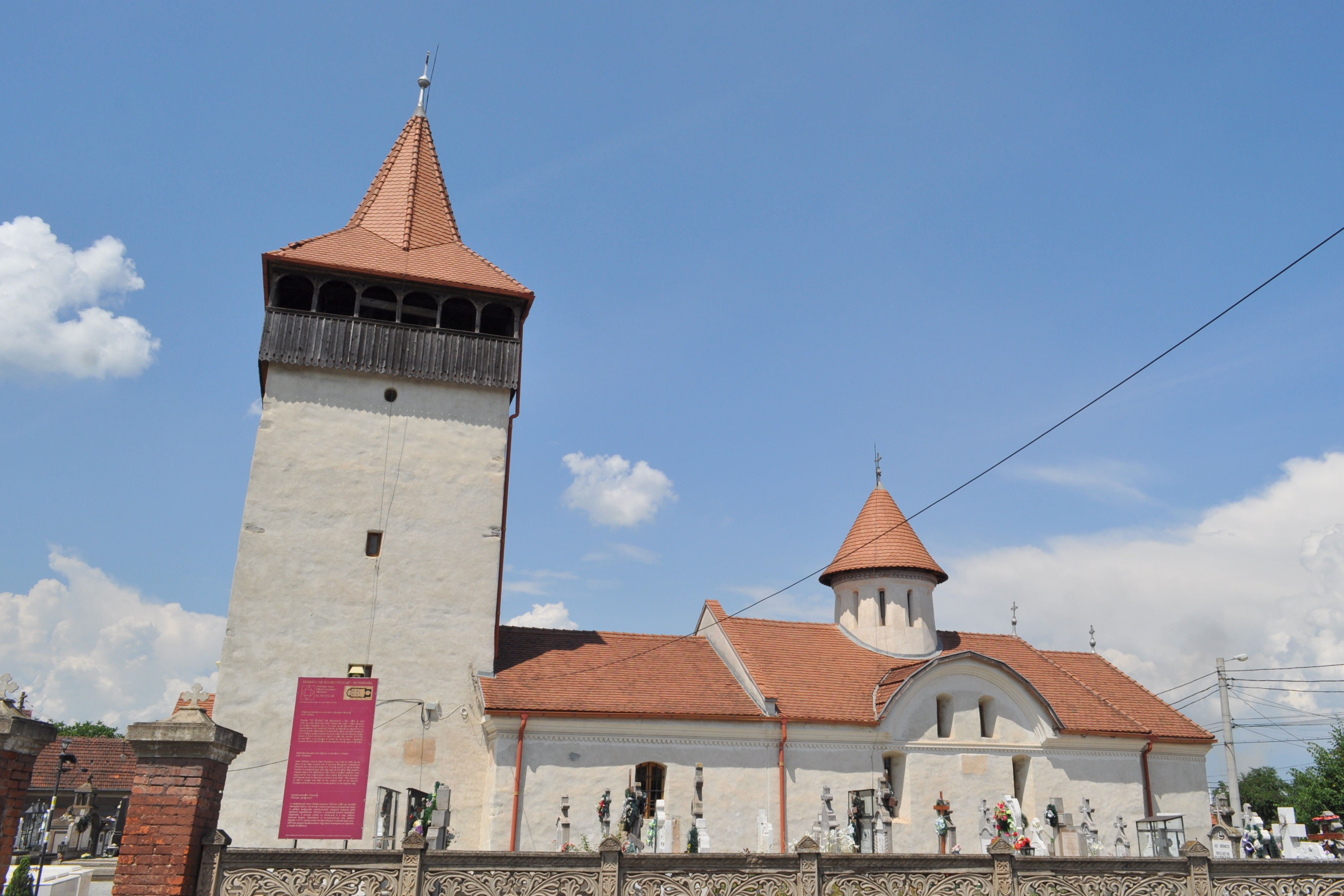 Saint Nicholas church in Hunedoara, Hunedoara county, Romania